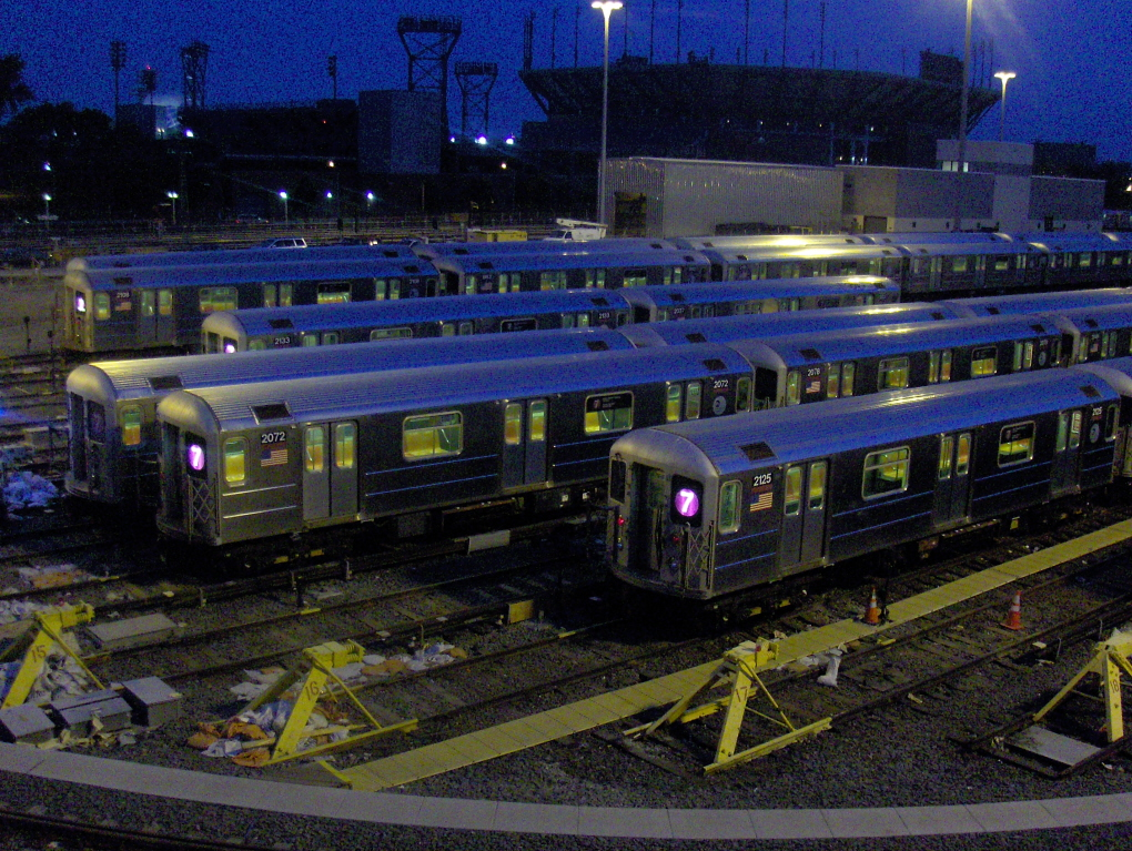 A picture of the Corona Train Yard, New York City, at night. Photo taken by me, can also be found on